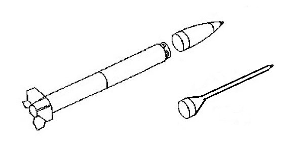 MMR-06 sounding rocket shape